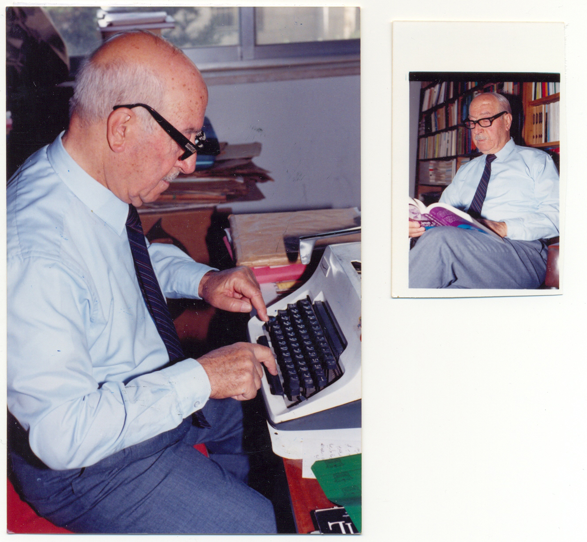 Suleiman Mousa working in his study